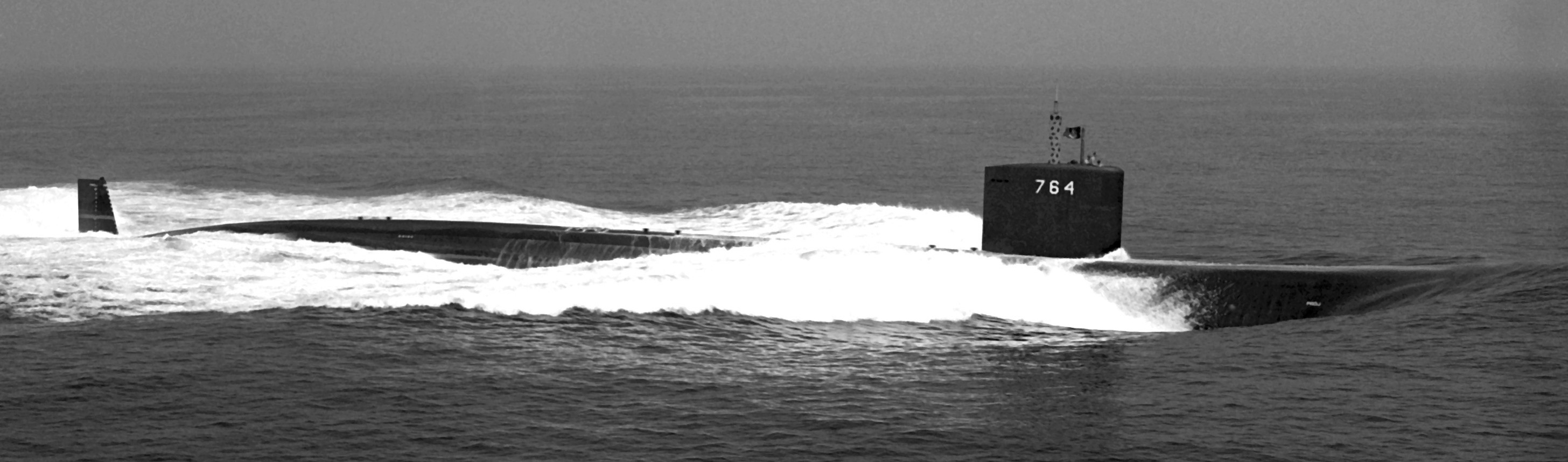 A starboard beam view of the nuclear-powered attack submarine BOISE (SSN-764) underway during sea trials.